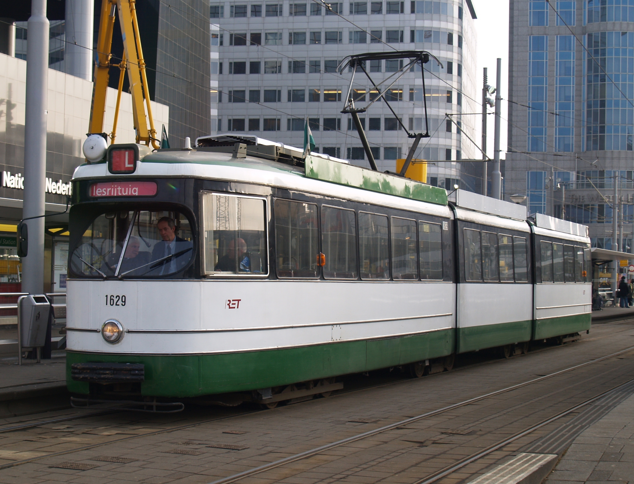 RET 1629